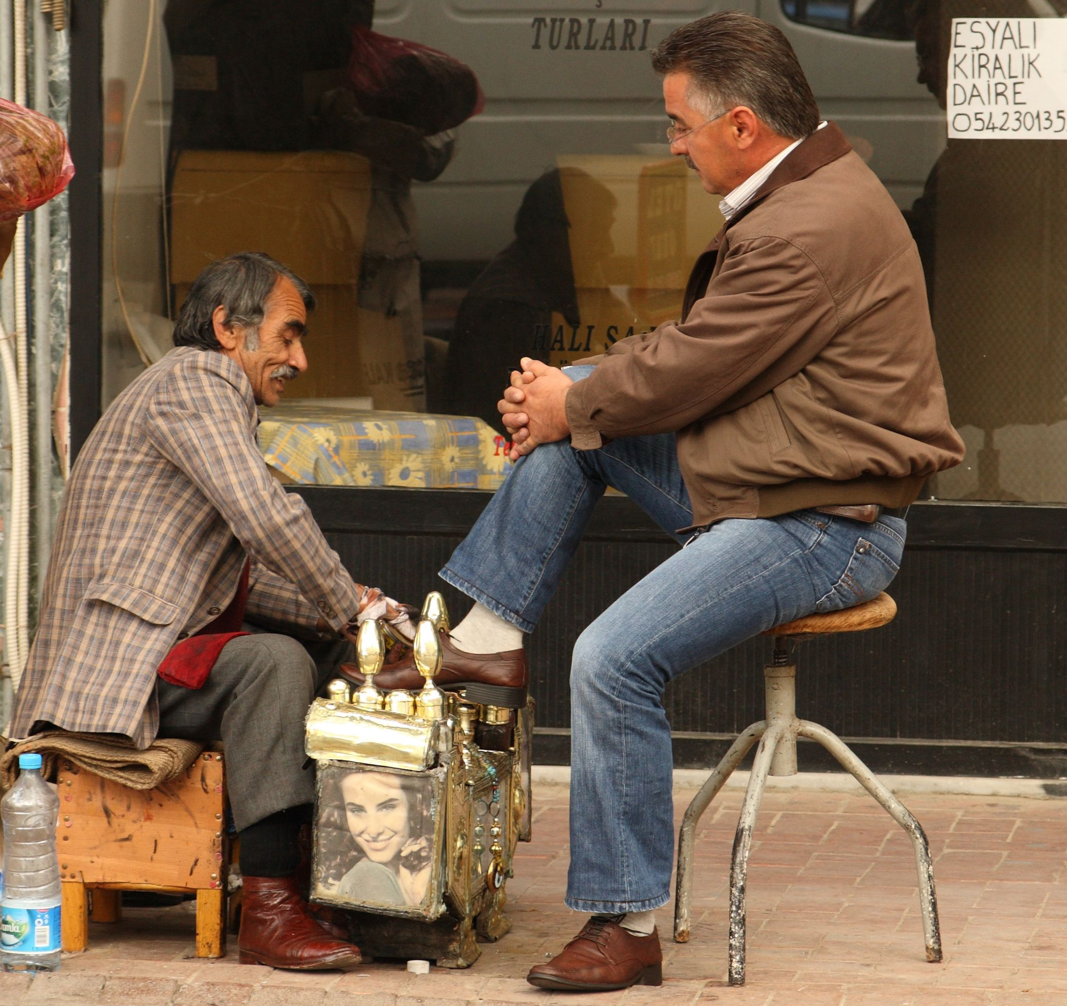 Getting a sidewalk shoeshine in Gelibolu, Turkey